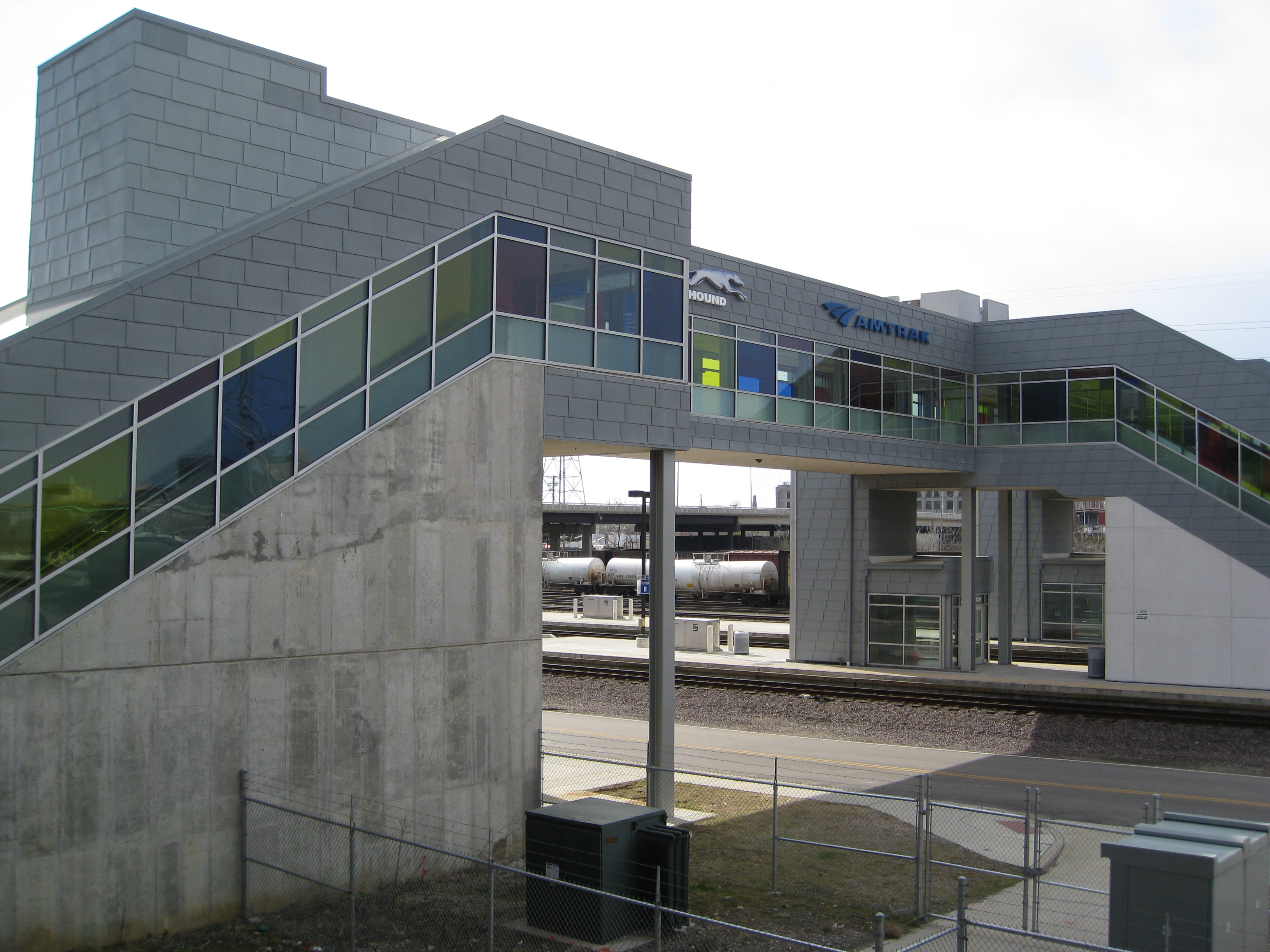 The new Amtrak platforms at the Gateway Multimodal Transportation Center in St. Louis, Missouri